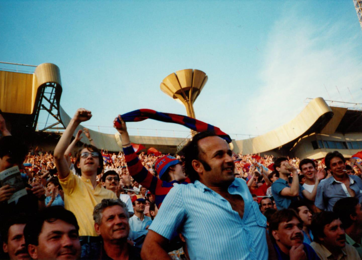 CSKA Moscow fans celebrate a goal in the 1991 Soviet Cup Final.